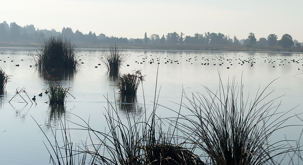 Cuerpo de agua al sur de la ciudad de Tlaxcala